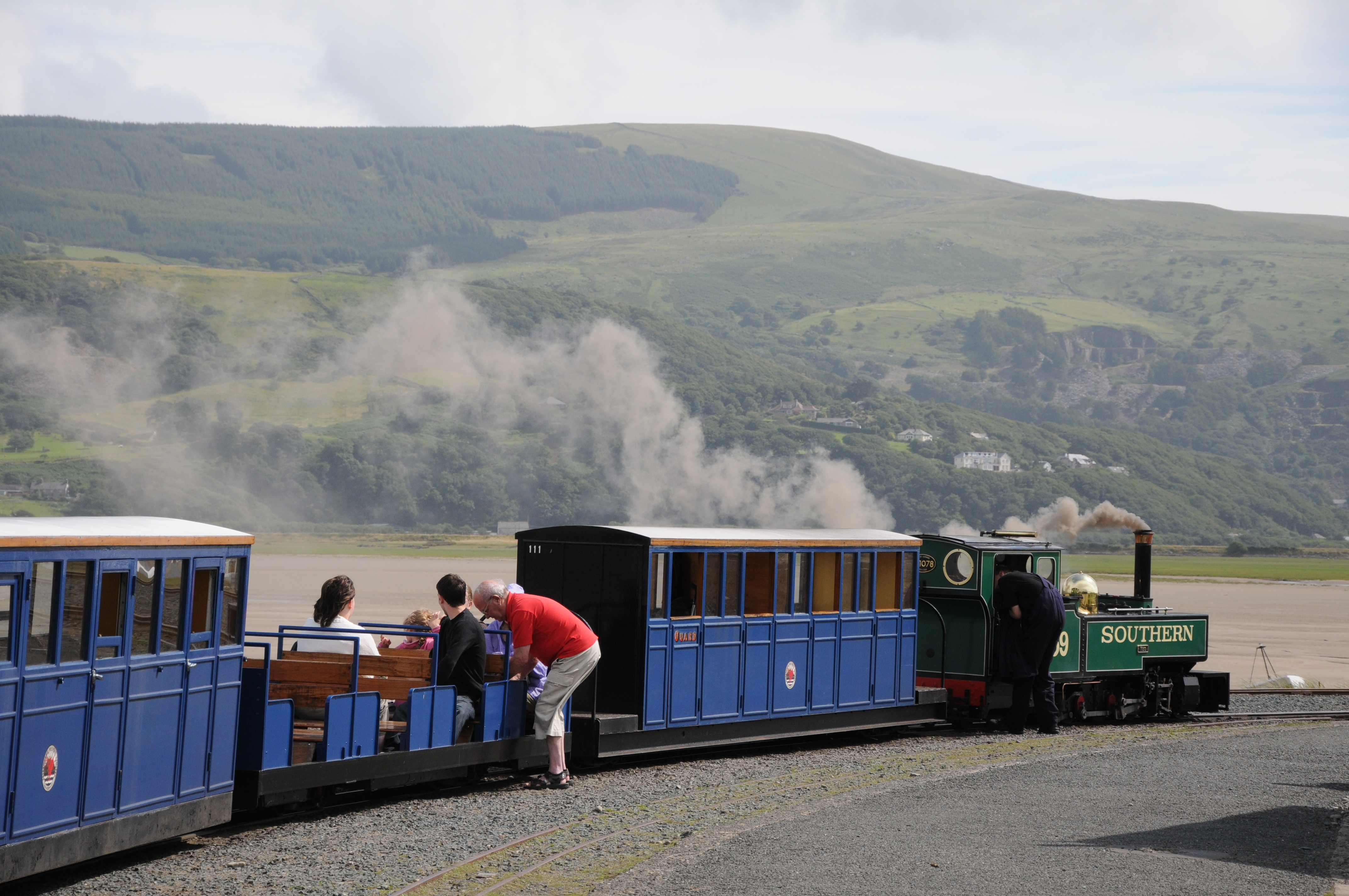 Fairbourne Railway